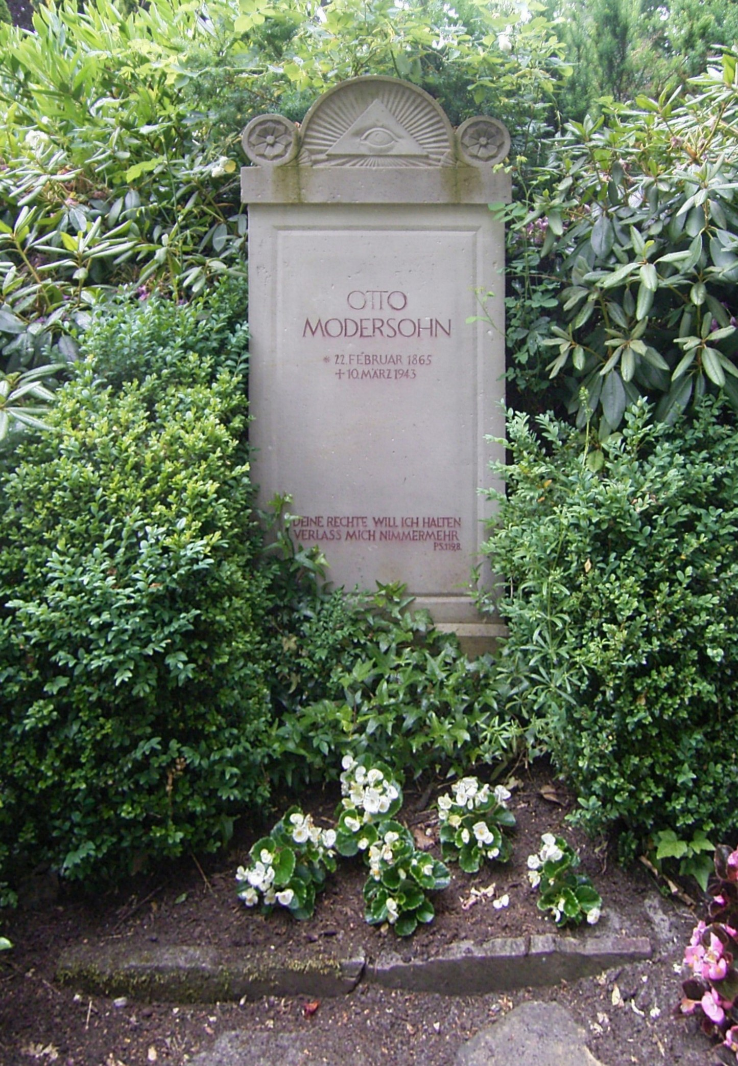 Grave Otto Modersohn (1865-1943)